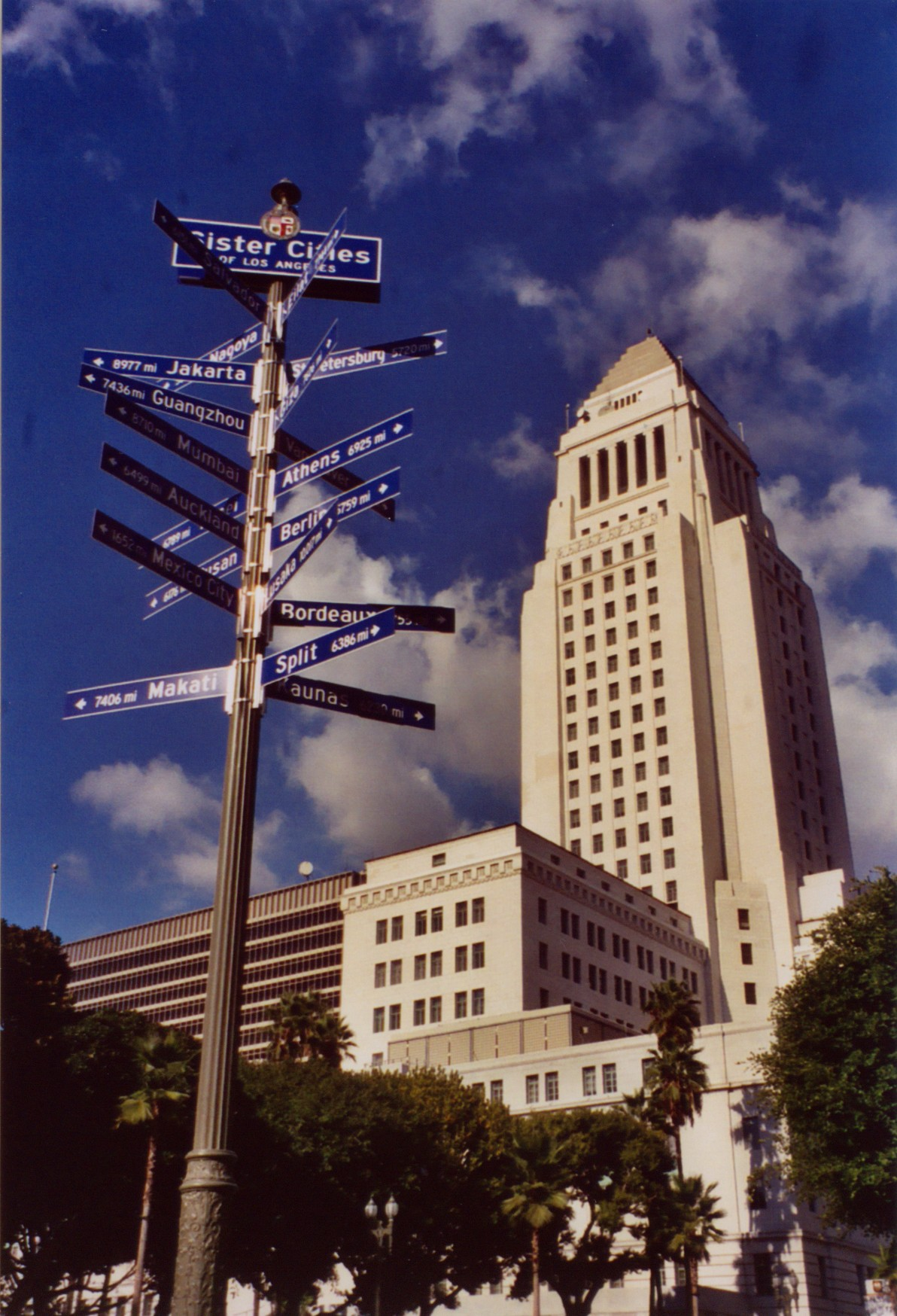 Los Angeles City Hall tower, with street sign listing sister cities in foreground. Scanned from film photograph taken by uploader, November 2003.